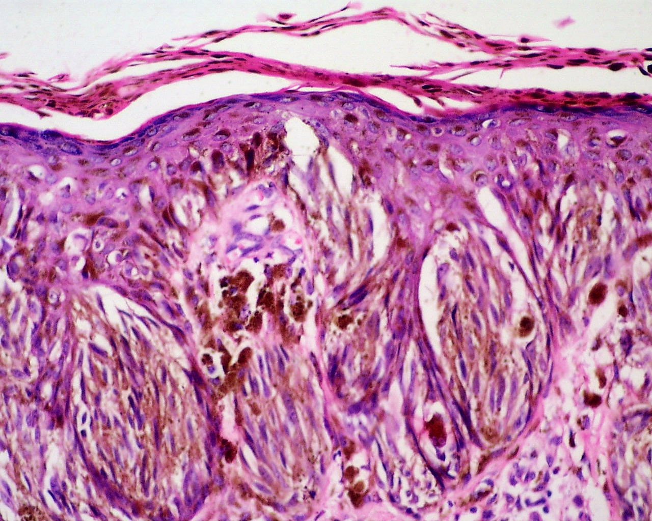 Pigmented spindle cell naevus Reed Melanocytarne znamię wrzecionowatokomórkowe przebarwione typu Reeda Wrzecionowate melanocyty tworzą duże gniazda wewnątrzna-błonkowe (otoczone przez keratynocyty). Melanina gromadzi się we wrzecionowatych melanocytach oraz w owalnych melanofagach, a nawet w komórkach naskórka. W keratynocytach warstwy kolczystej jest ona gromadzona w postaci charakterystycznych „czapeczek” okołojądrowych, a w warstwie rogowej w postaci skupisk barwnika.